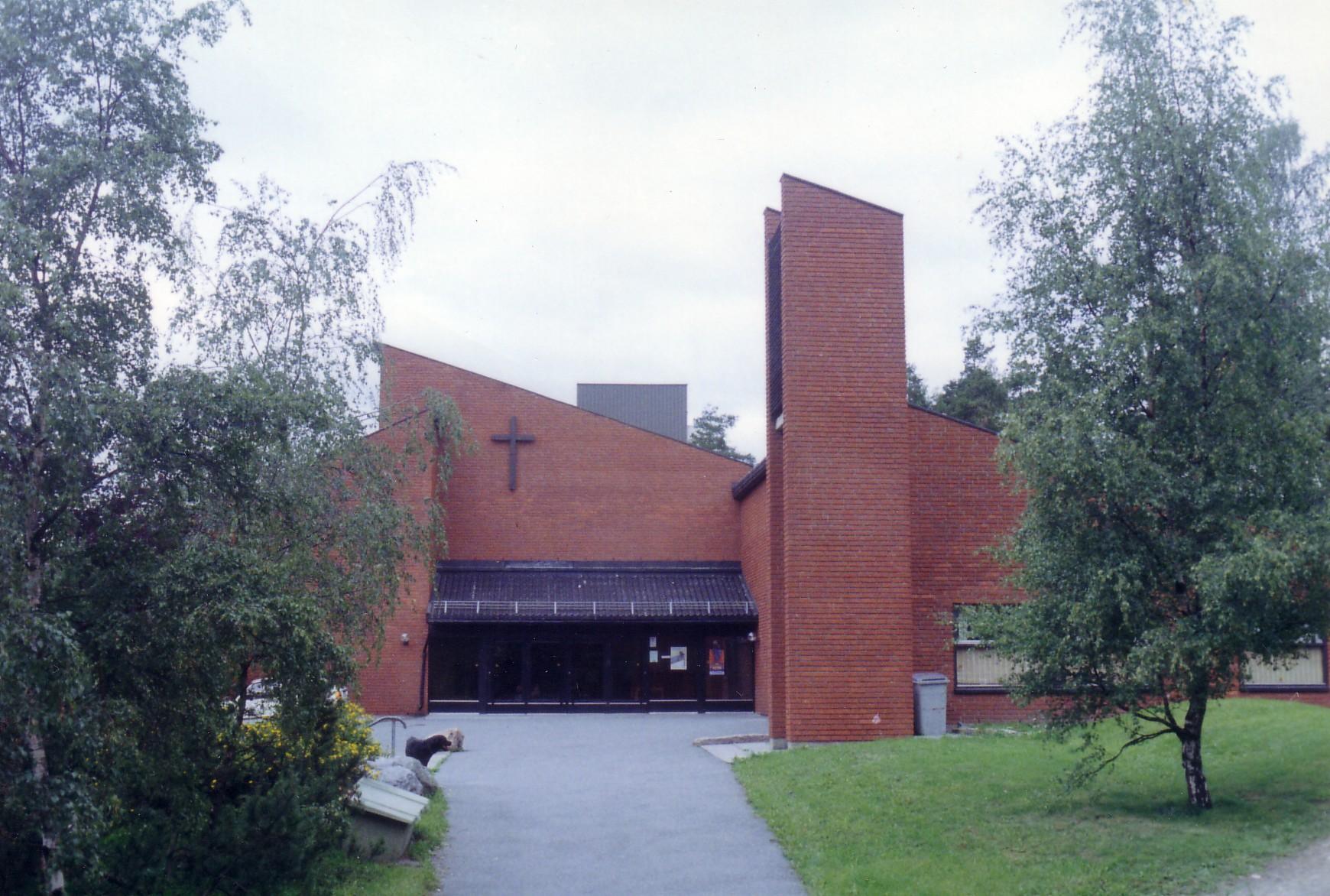 Fossum Church at Stovner in Oslo, built in 1976